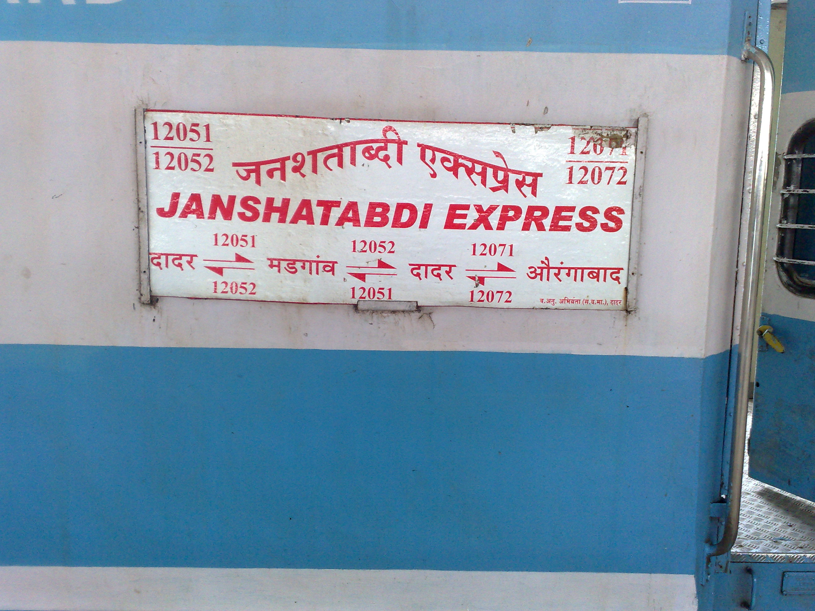 12071 Janshatabdi Express trainboard